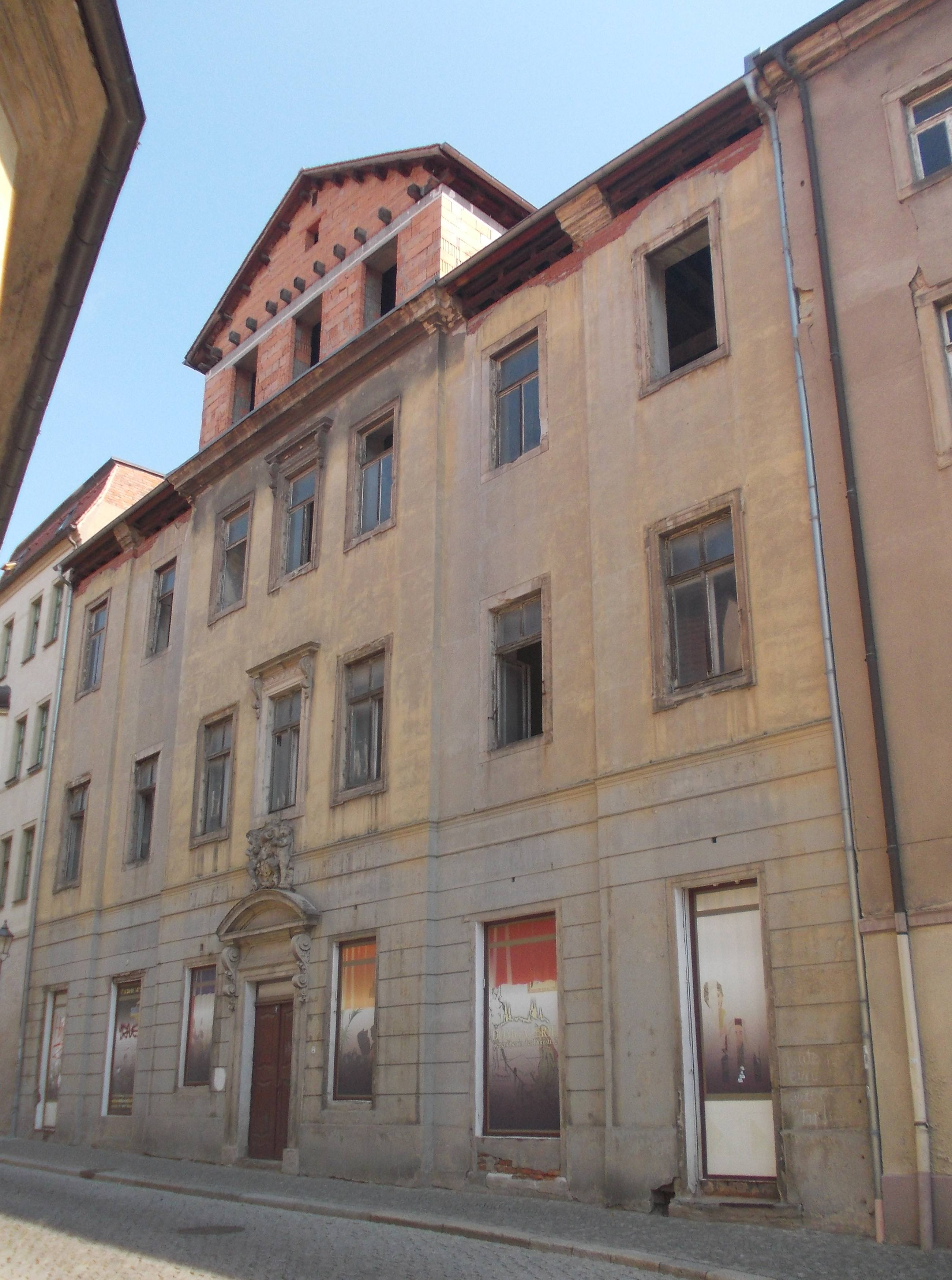 No. 3, Domstrasse in Merseburg (district: Saalekreis, Saxony-Anhalt)